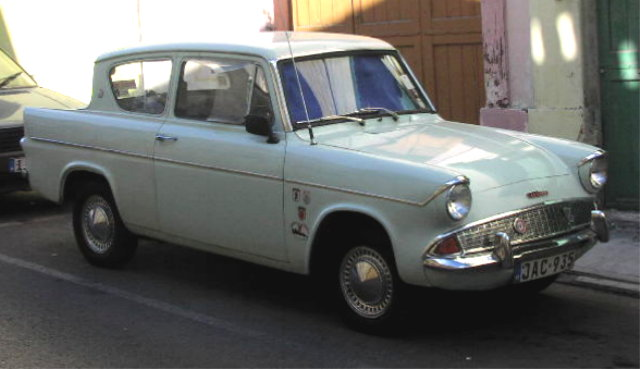 Ford Anglia 105E Sedan